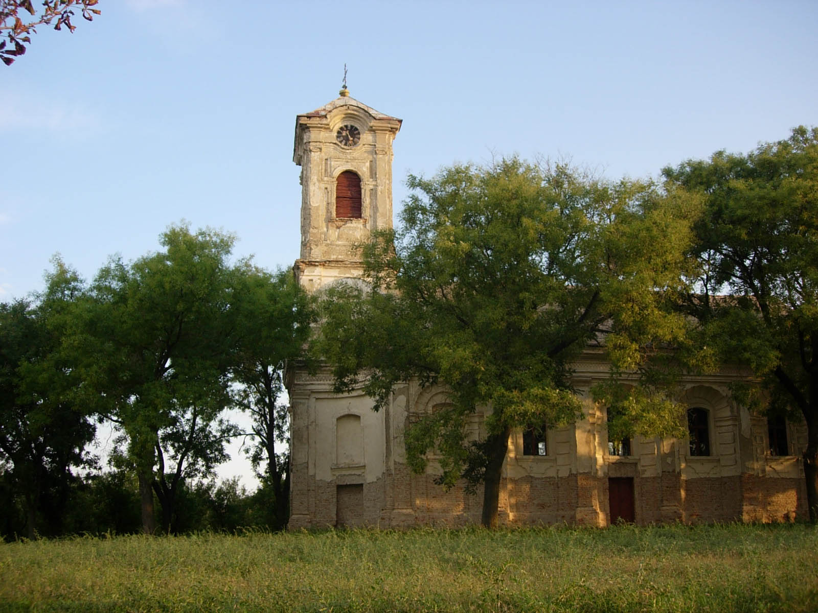 The Orthodox church in Bočar.